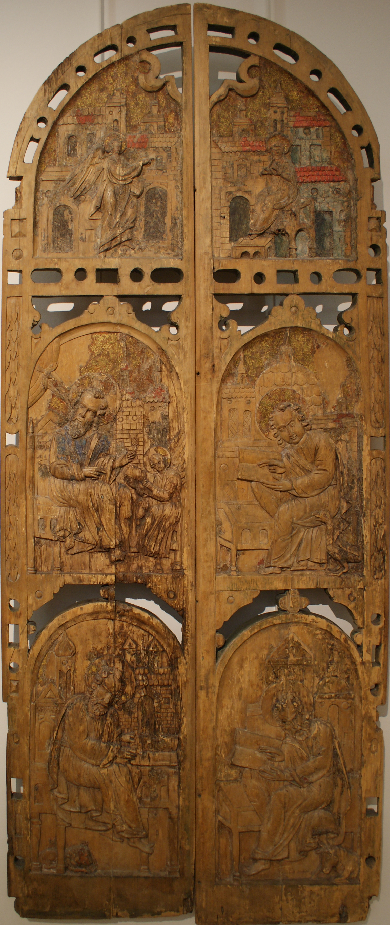 Royal Doors (last quarter of the XVI century) from the village Varanilavičy. Wood carving, polychrome. Restorer - Peter Zhurbey